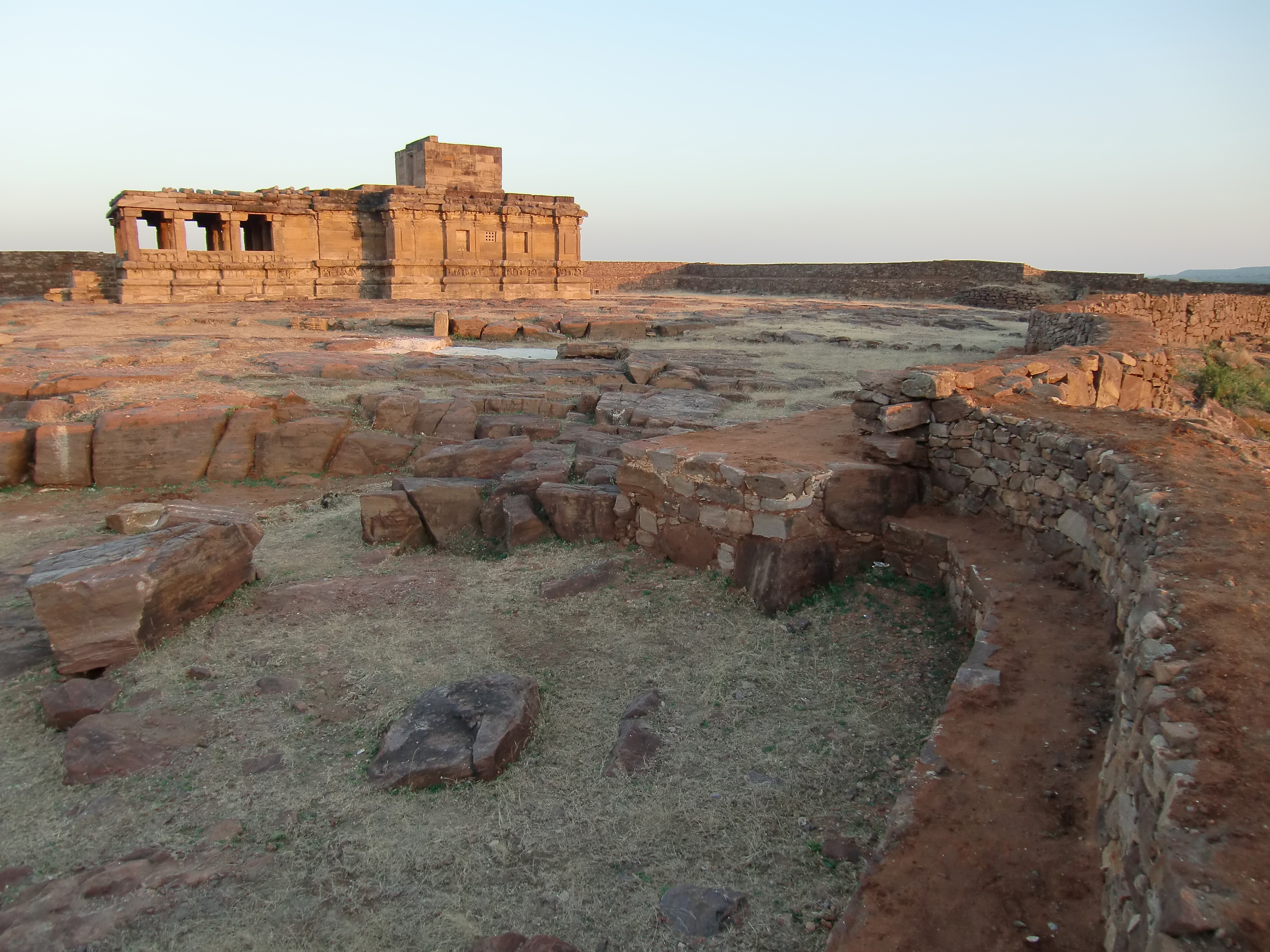 Meguti temple at Aihole fort Hubli, Karnataka(North), India